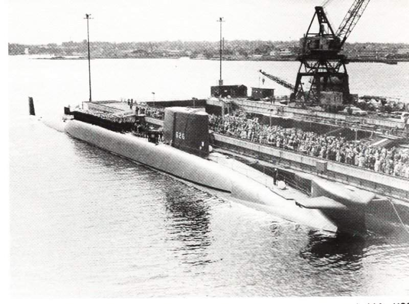 Bow mounted diving planes fitted for the commissioning ceremonies of USS Daniel Webster (SSBN-626) on 9 April 1963. US Navy photo courtesy of Electric Boat.